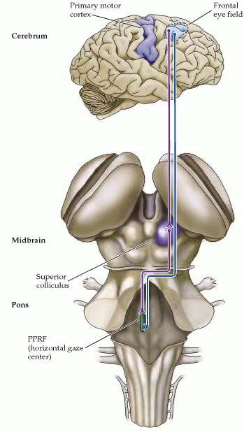 Location of the frontal eye field (FEF) in the frontal lobe of the cerebral cortex and the superior colliculus in the midbrain, and the relationship between them